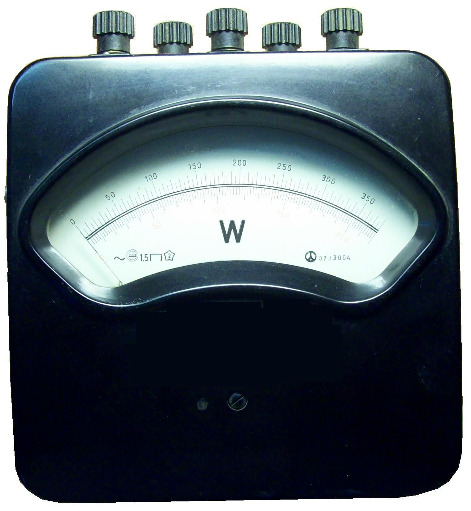 wattmeter powermeter